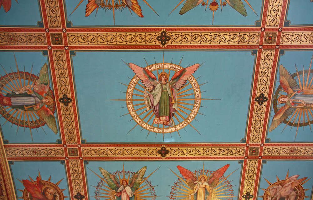 St John the Baptist, Crondall Street, Hoxton - Ceiling